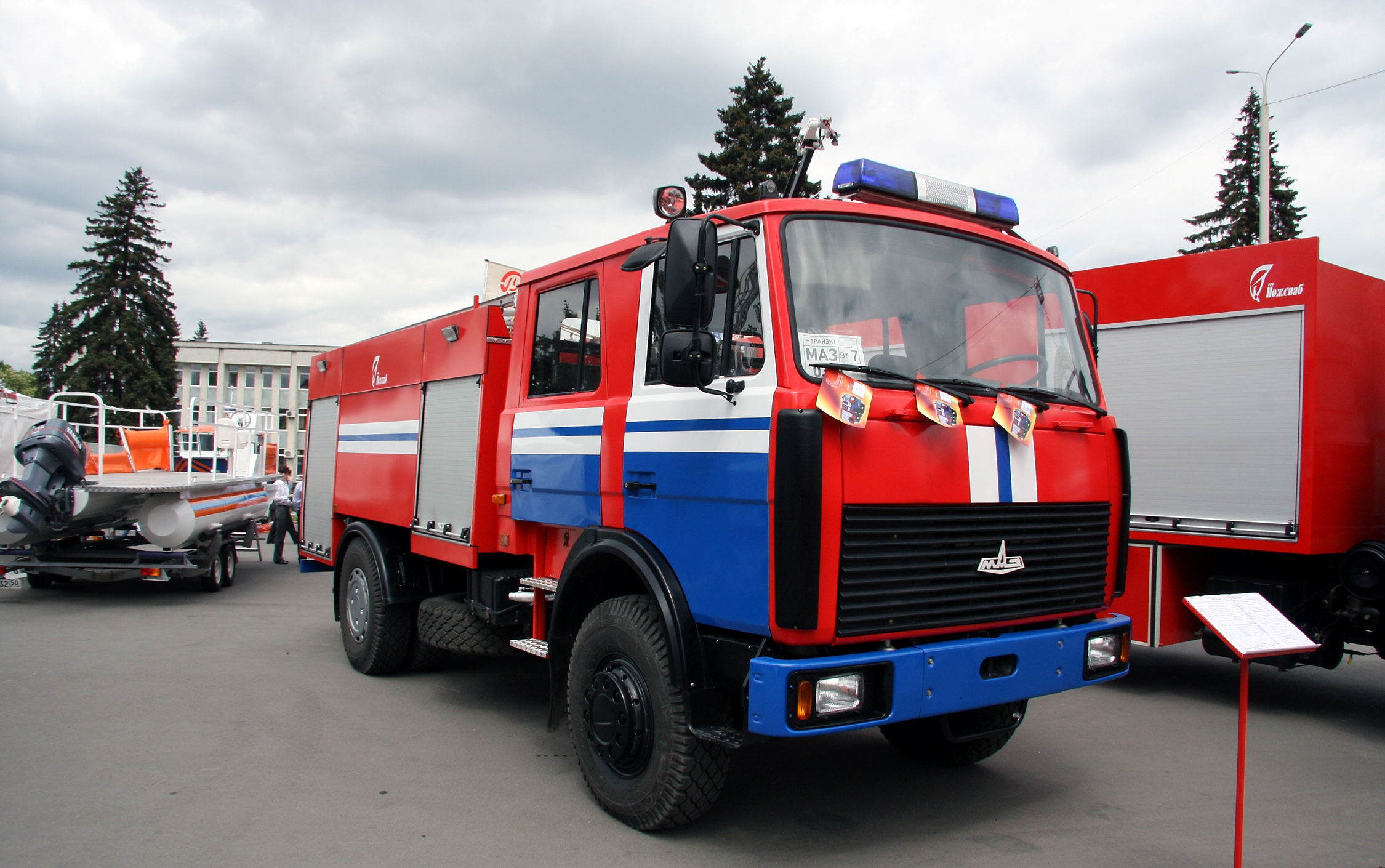 Fire truck ATs 5,0-50-4 on MAZ-5337A2-chassis at the Integrated Safety and Security Exhibition 2009.